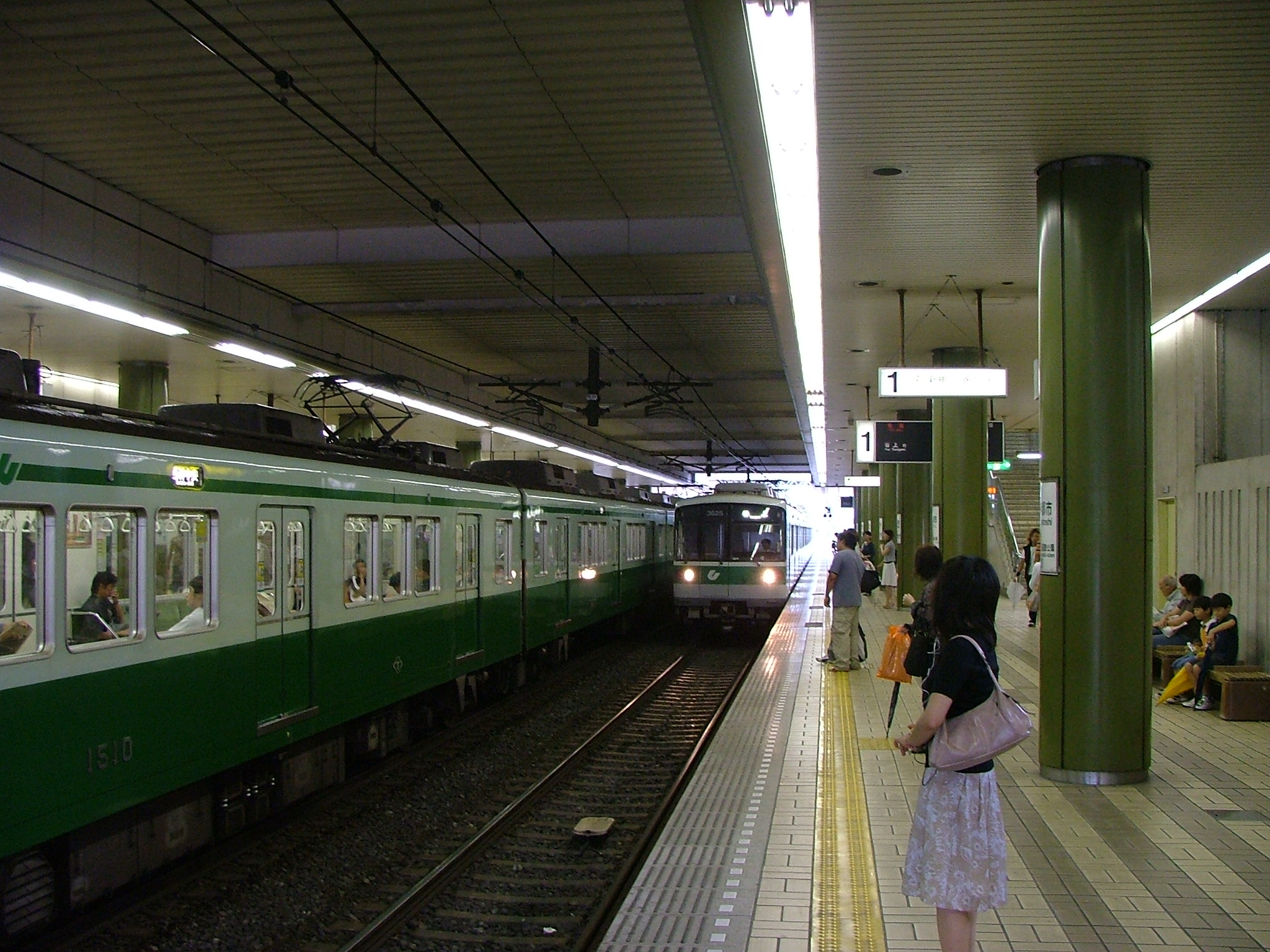 Train Arriving at Gakuen-Toshi on the Seishin-Yamate Line. Kobe, Hyogo, Japan